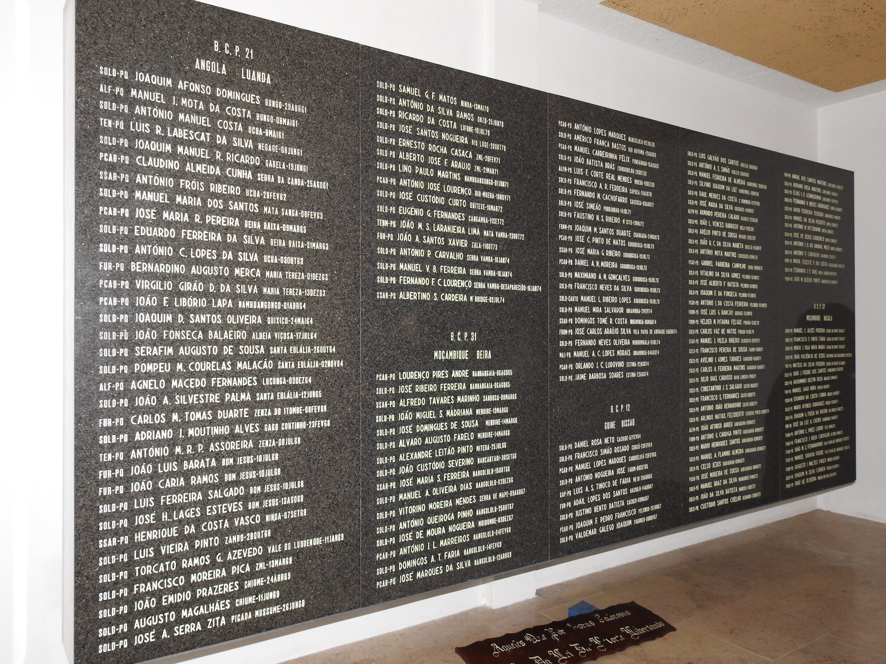 View inside the Portuguese Tropas Paraquedistas (paratoopers) Museum (Sala da Memória)